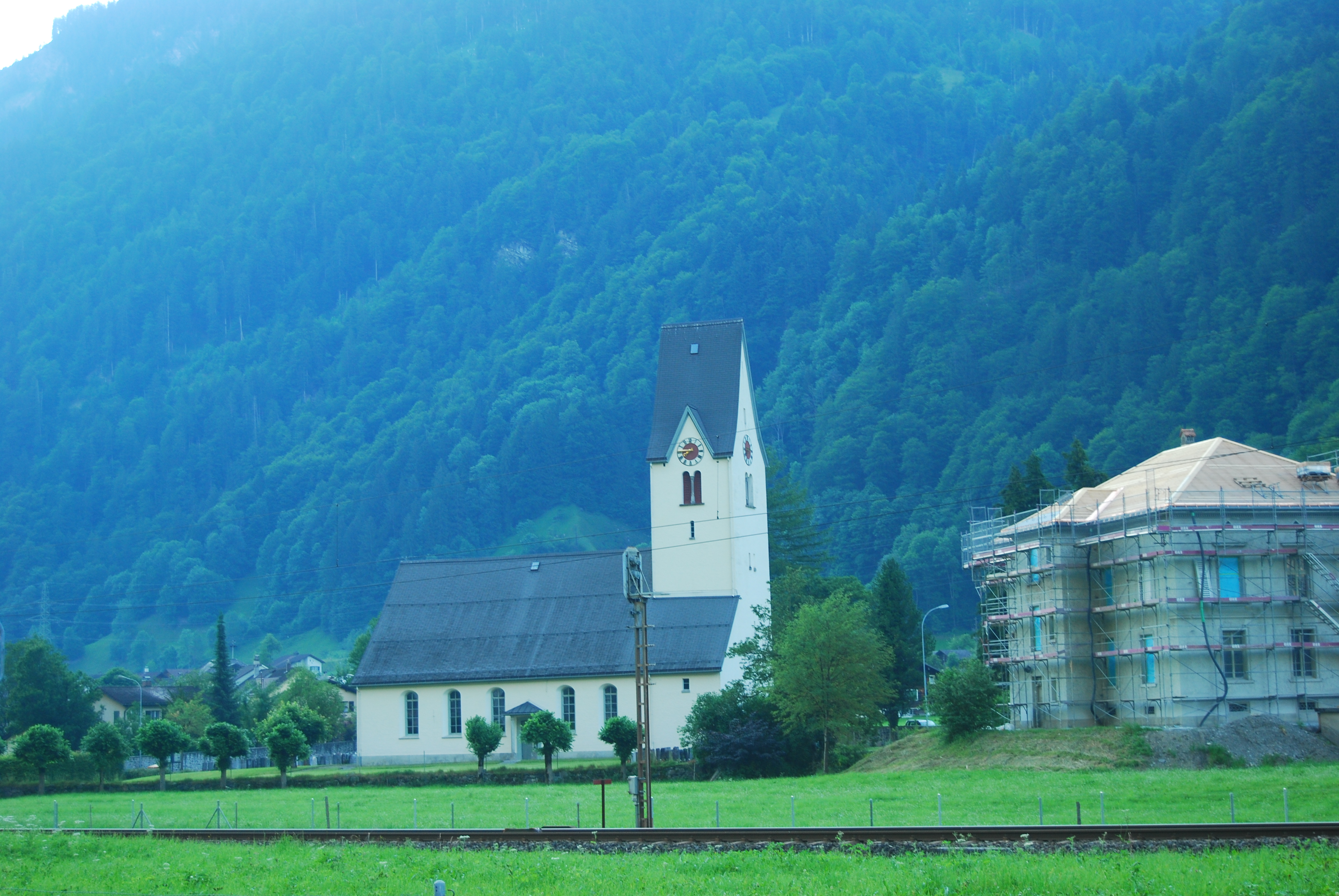 Church of Betschwanden, canton of Glarus, SwitzerlandEsperanto: Preĝejo de Betschwanden, Kantono Glaruso, Svislando